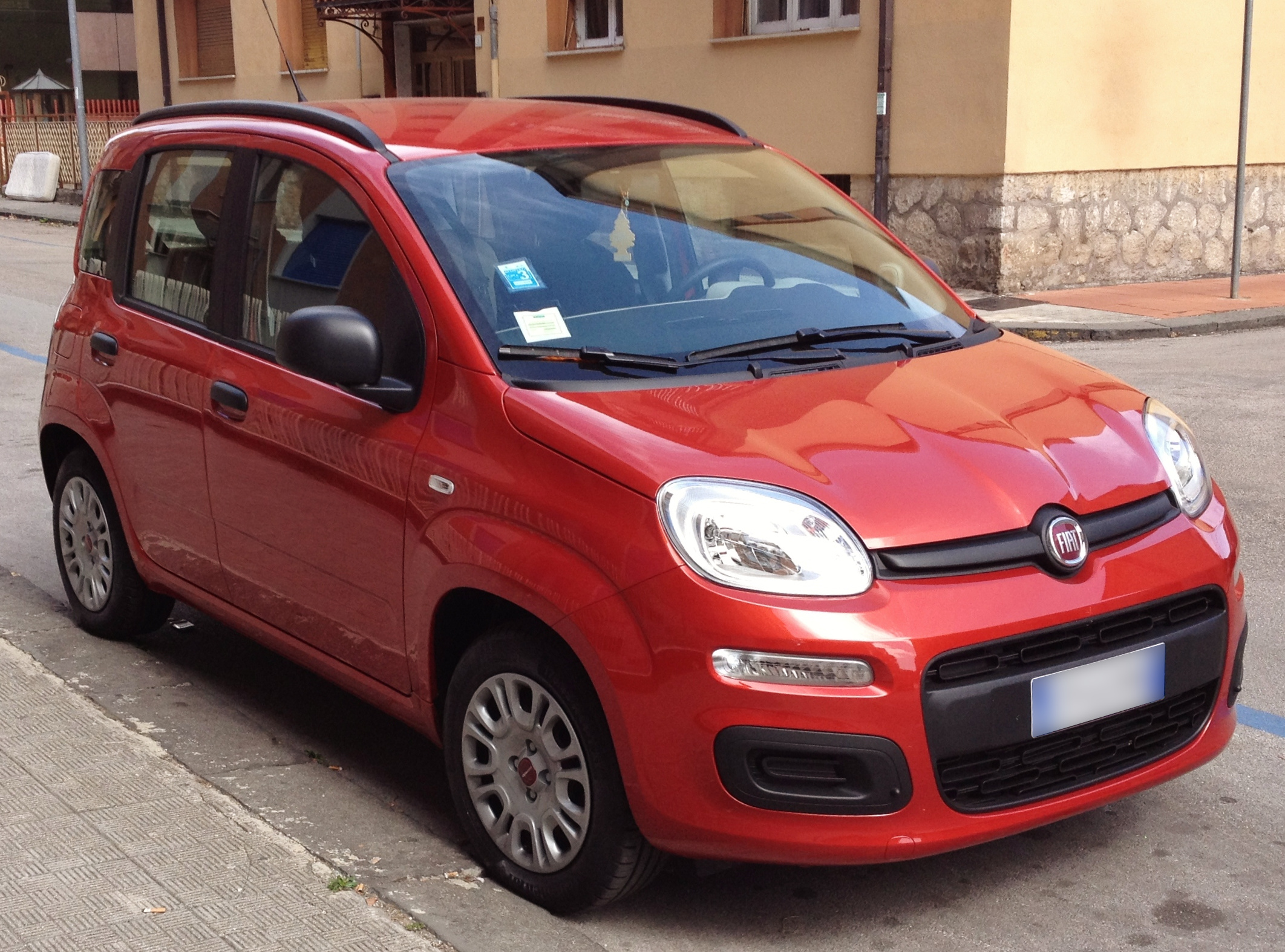 2012 Fiat Panda III 1.2 in Avellino